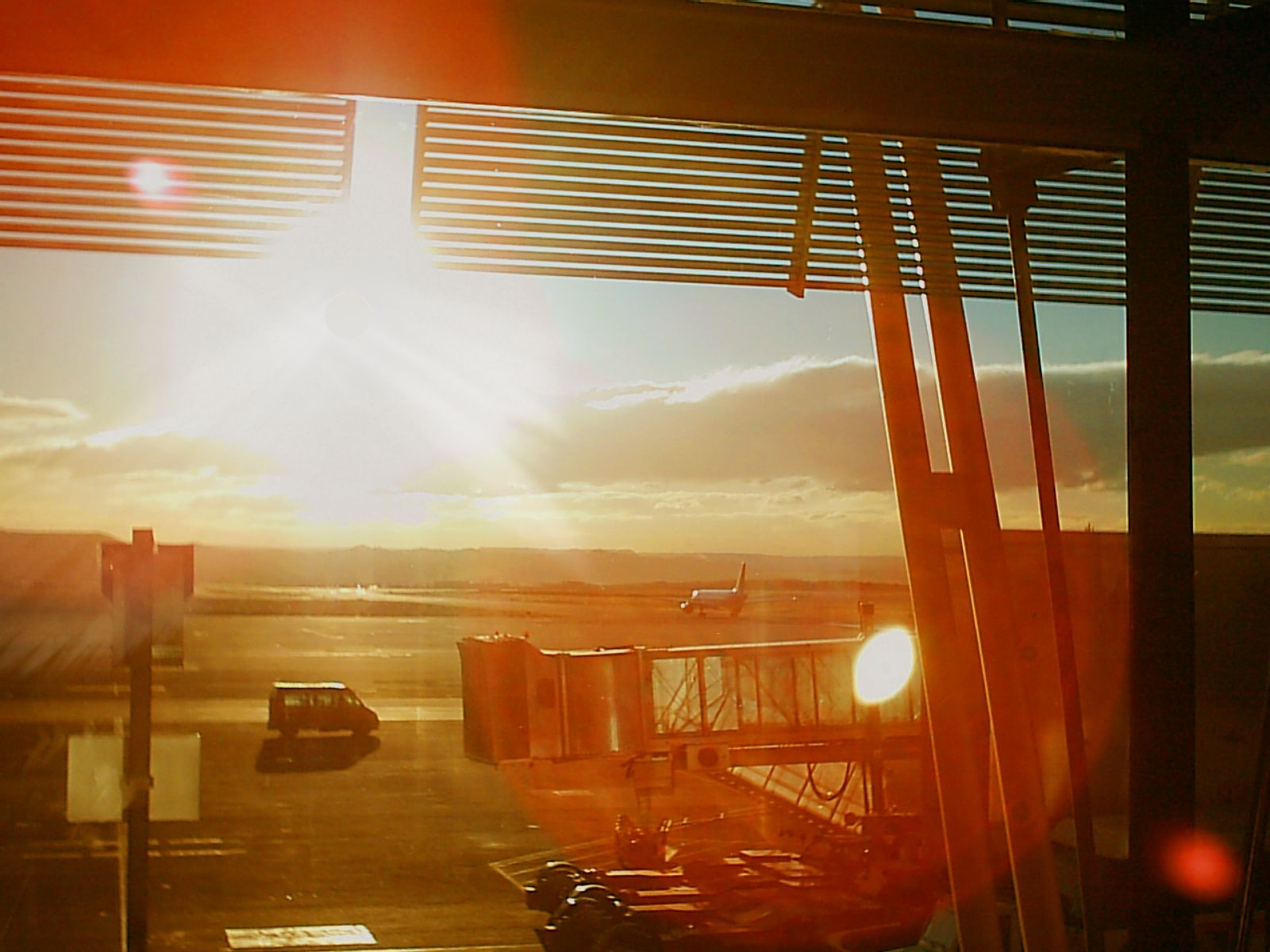 Terminal 4 of the Barajas airport at 03-20-2007 around 6 o'clock AM, the sun is get off and shuning. Take it with a benq-1500 camera and it's modify with adobe photoshop cs2.